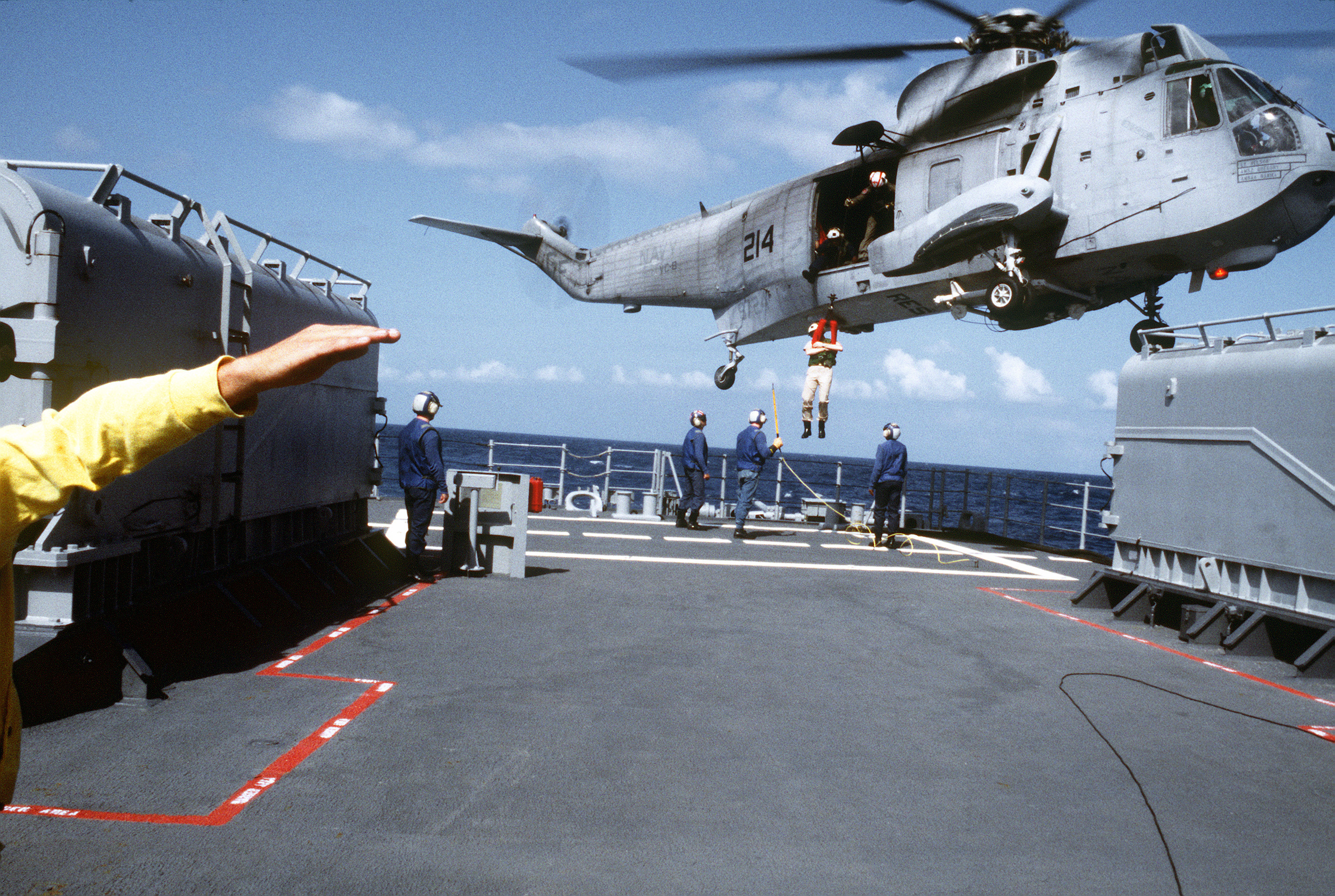 An SH-3 Sea King helicopter of Helicopter Composite Squadron 8 (VC-8) hovers over the fantail of the nuclear-powered guided missile cruiser USS MISSISSIPPI (CGN-40) as it lowers Captain Kevin J. Cosgriff, Commander, Cruiser Destroyer Squadron 32, and at present, Commander, Joint Task Group 120.1 (JTG 120.1) back onto his flagship. The MISSISSIPPI is taking part in Operation Support Democracy off the coast of Port au Prince, Haiti.